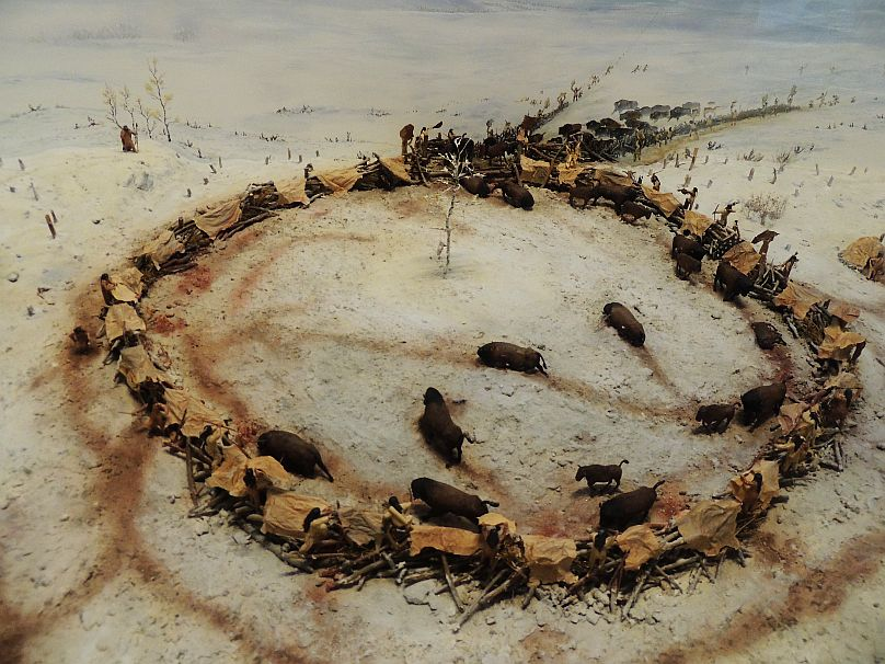 Indigenous diorama at the Royal Alberta Museum, Edmonton, Alberta, Canada.